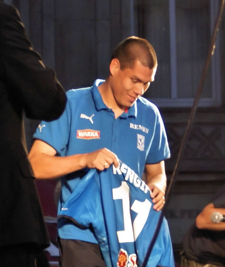 Hernan Rengifo - Lech Poznań